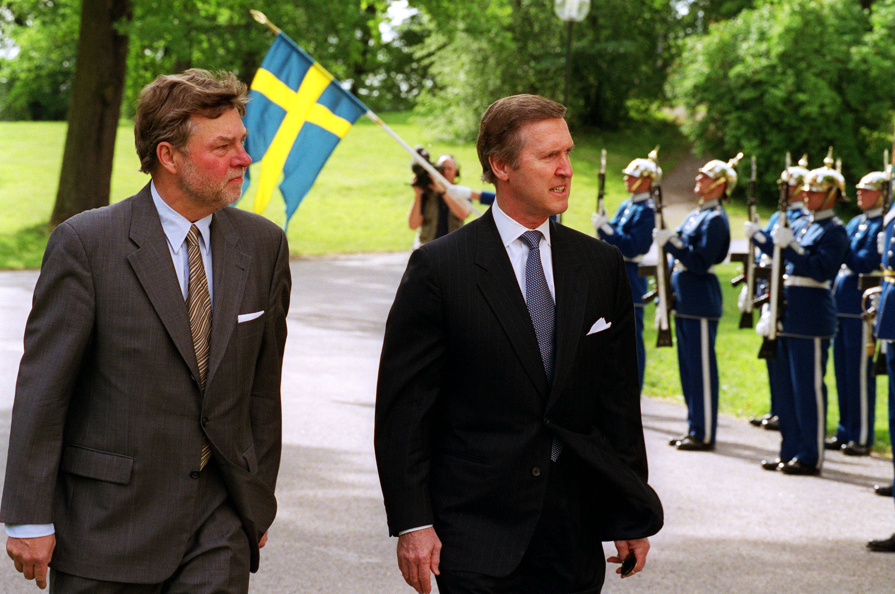 U.S. Secretary of Defense William Cohen (right) inspects the honor guard at Haga Palace in Solna, Sweden, during a military welcoming ceremony hosted in his honor by Swedish Minister for Defense Björn Von Sydow (left) on June 12, 2000. Cohen will meet with Von Sydow to discuss a range of security issues of mutual interest to both nations. DoD photo by R. D. Ward. (Released)